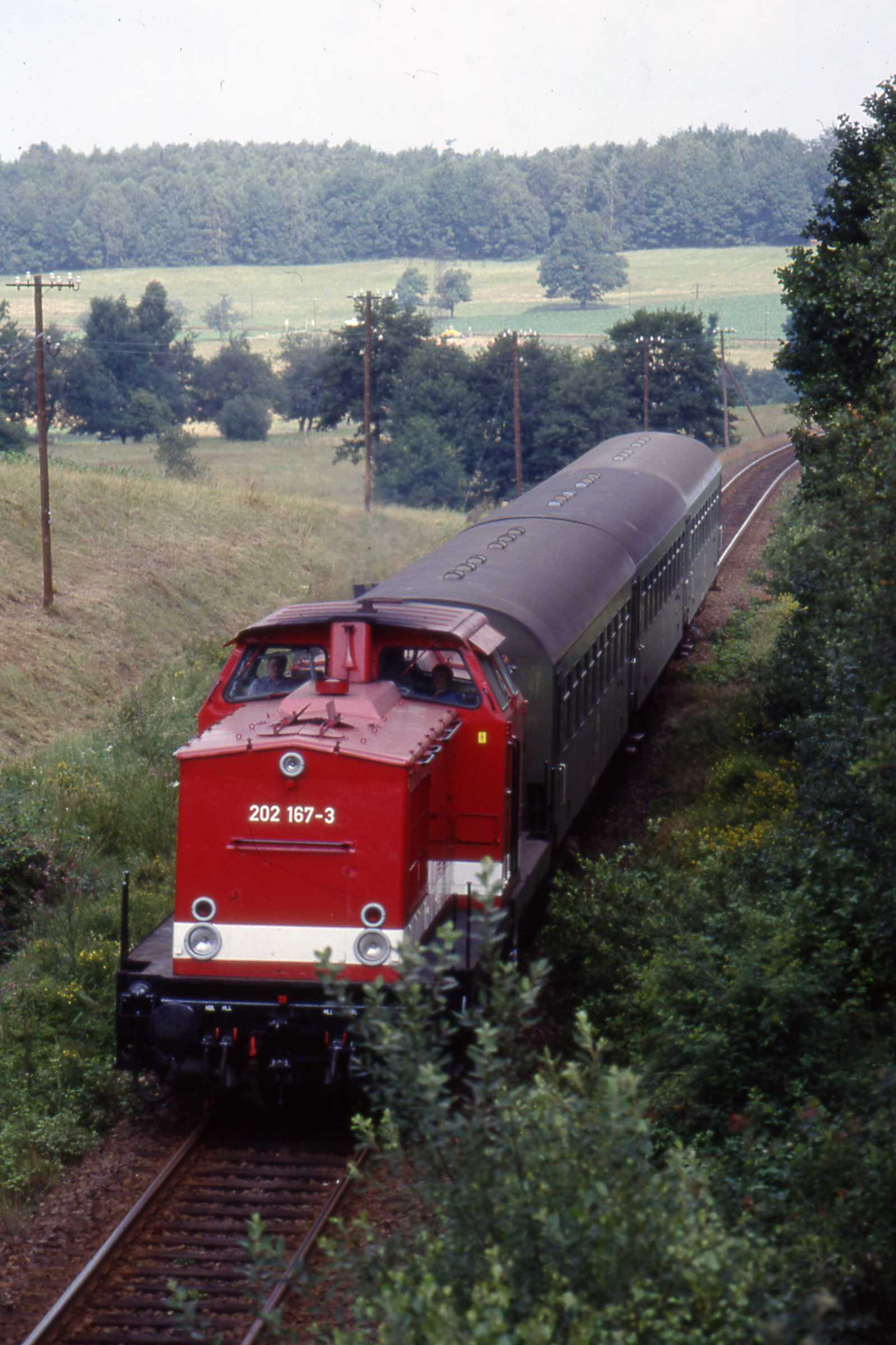 A personenzug between Neustadt and Sebnitz en route for Bad Schandau on the then KBS 314 between Bautzen, Wilthen and Bad Schandau. I suspect this photo was taken at Oberottendorf. It is also now known as the Sächsisch-Böhmische Nationalparkbahn. Between Neukirch (Lausitz) West and Neustadt (Sachs) in KBS 239 there was a break in the line caused by a new national by-pass road. The last service between the two places was in May 2005.